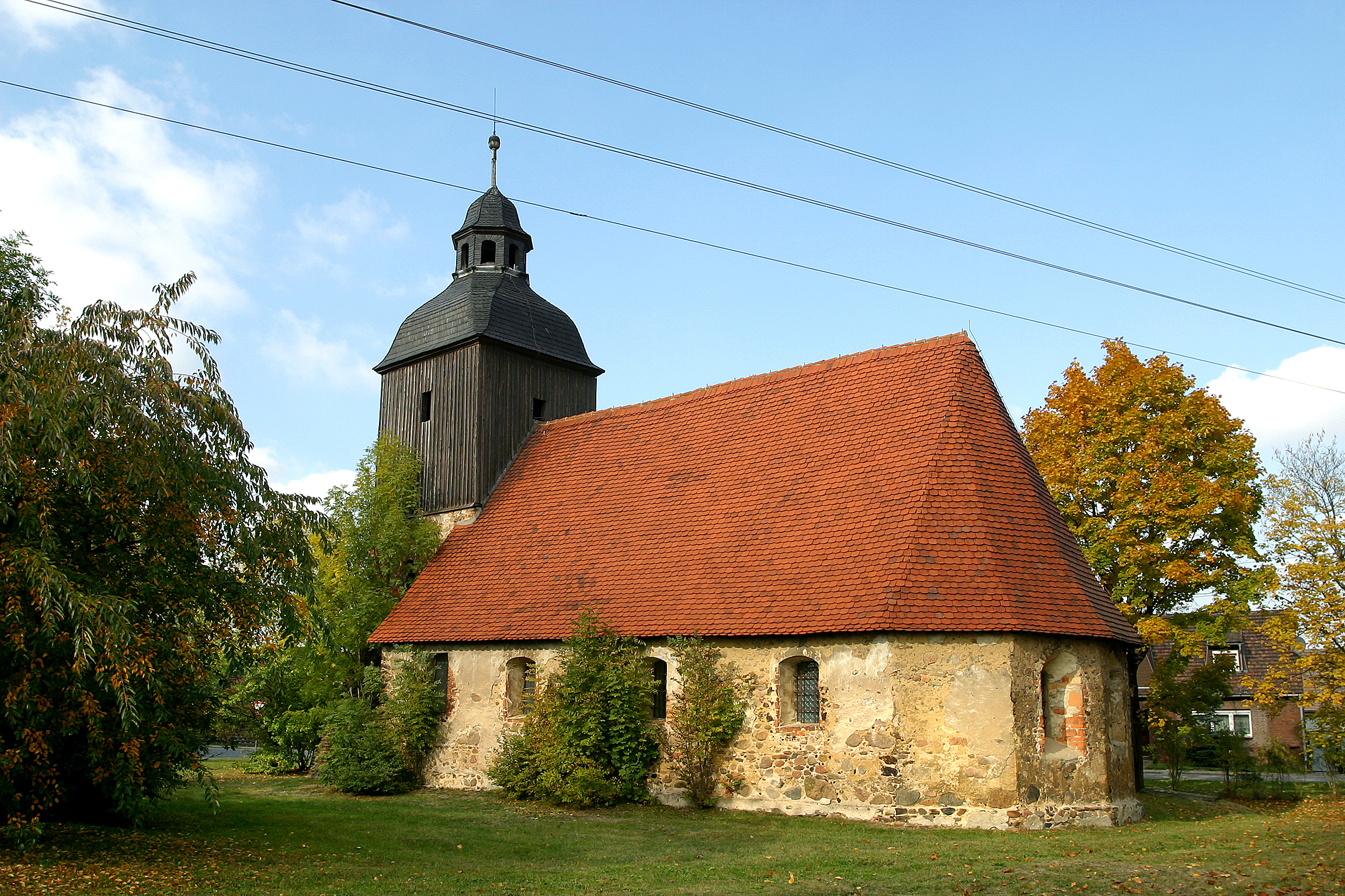 Church in Kemmen, town of Calau, Brandenburg, Germany